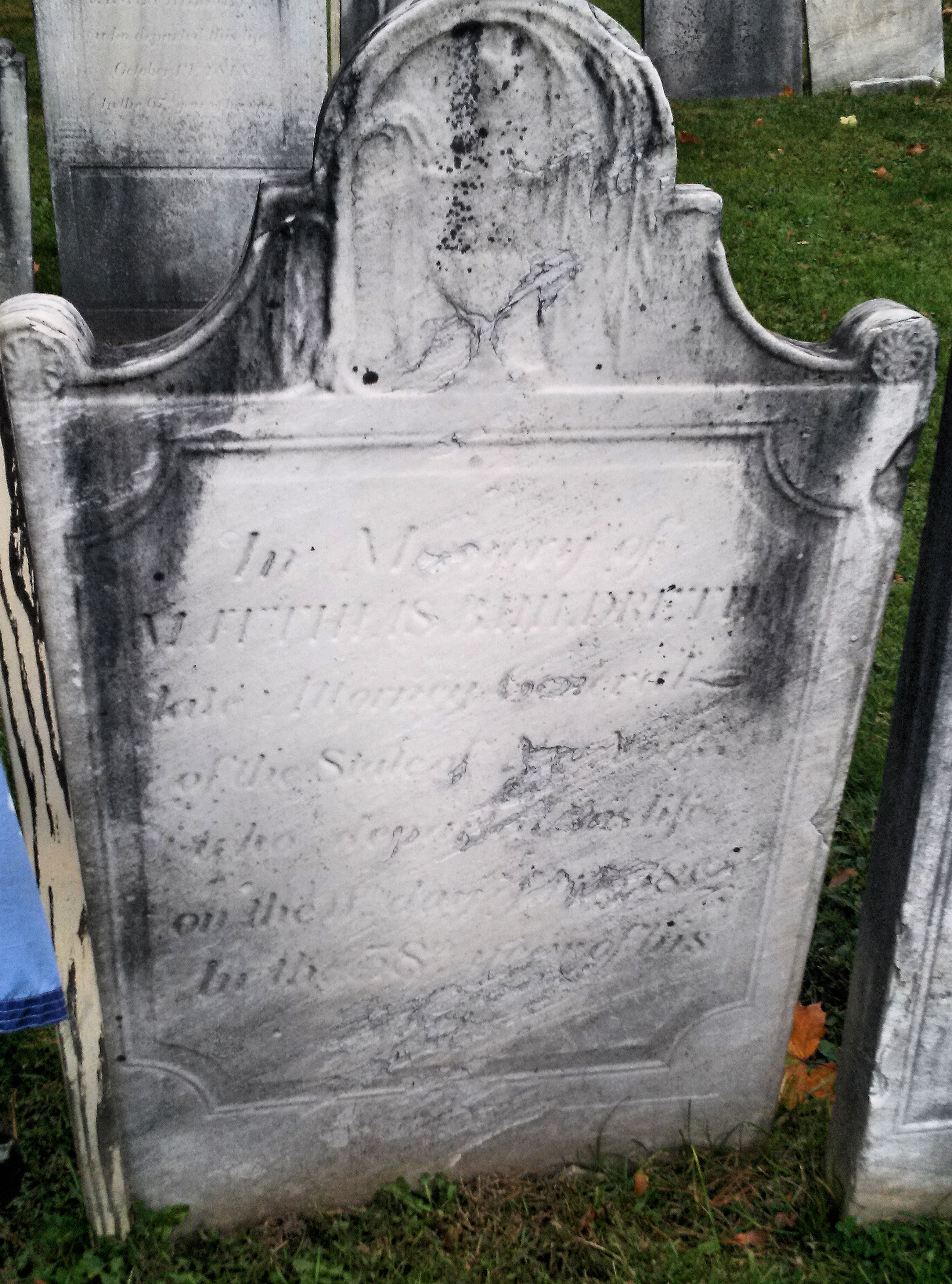 Headstone of Matthias B Hildreth late Attorney General of the State of New York (1812) reads: In memory of Matthias B Hildreth late Attorney General of the State of New York who departed this life on the 11th day of (July?) 1812 in the 58th year of his age